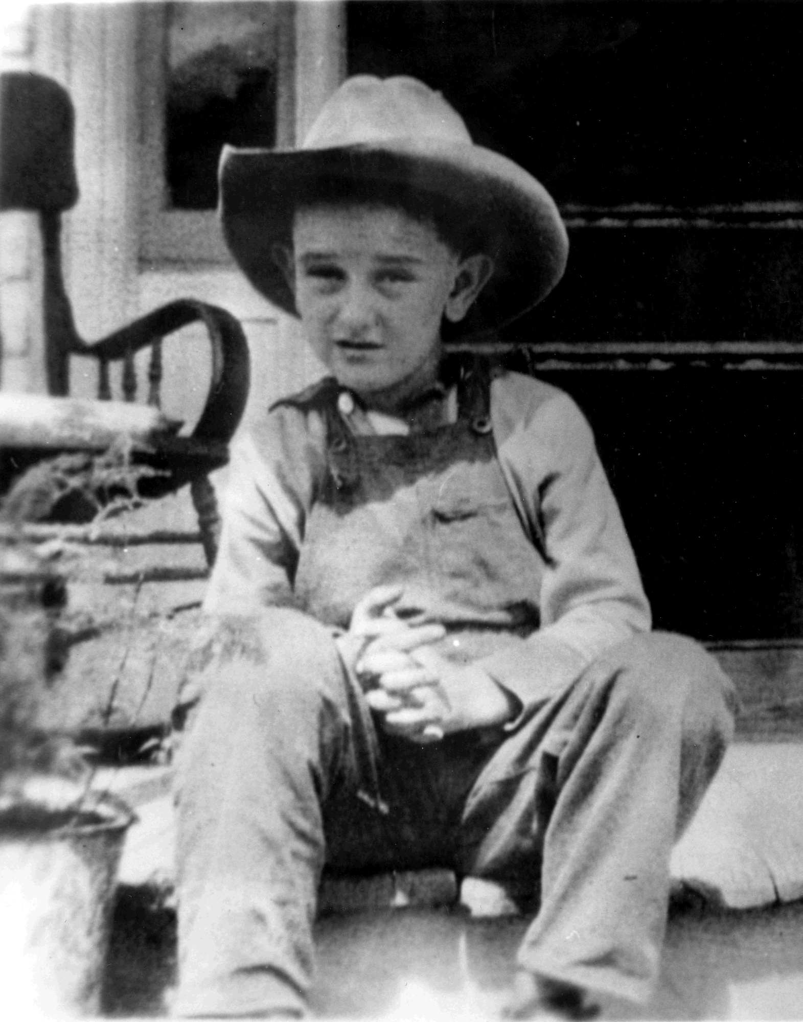 A picture of Lyndon Johnson in 1915 at his family home in the Texas hill country near Stonewall, Texas and Johnson City